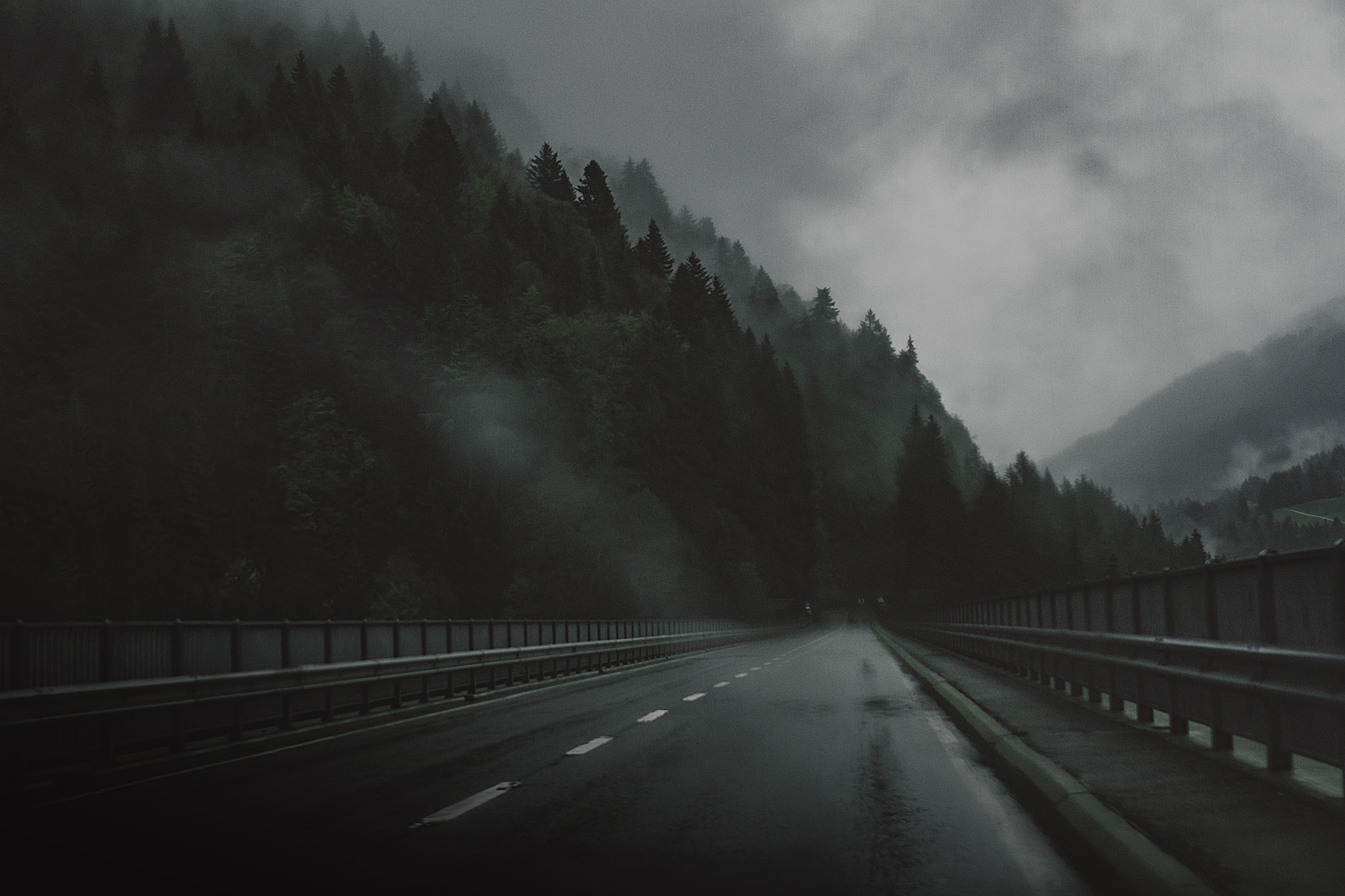 Switzerland